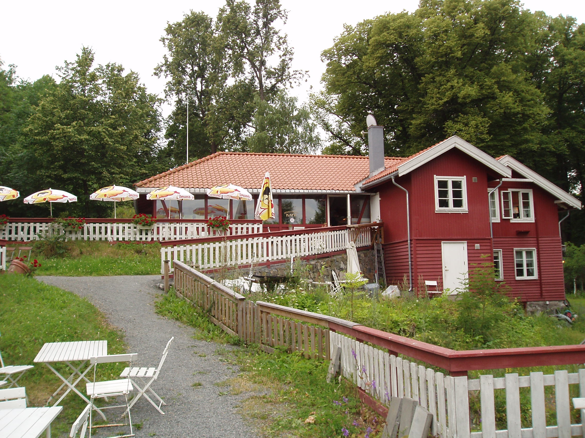 The Rodeløkken Café at Bygdøy, Oslo. The country house was built in 1780 for colonel Henning Hesselberg, and named Henningslyst. Restaurant or café since 1874.